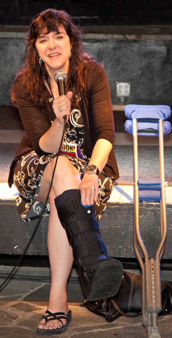 MaryAnne Golon, Assistant Managing Editor and Director of Photography at the Washington Post, led a panel discussion at the 2011 Look 3 Conference on why photographers should pursue stories on global health issues.